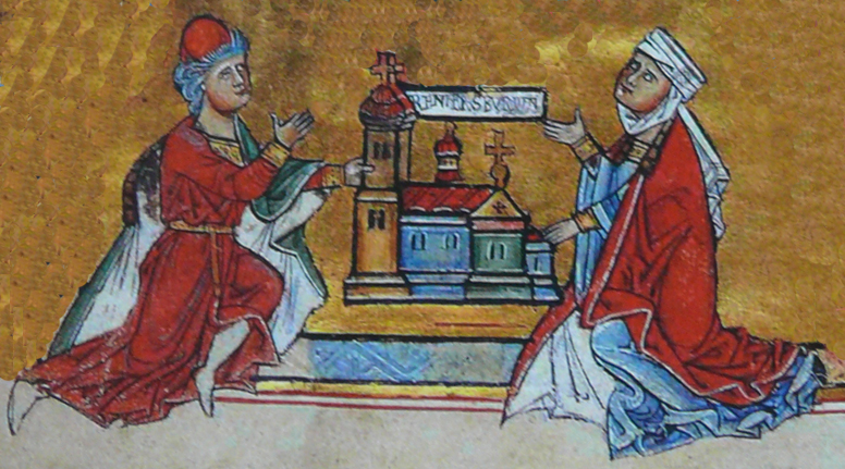 Elisabethpsalter